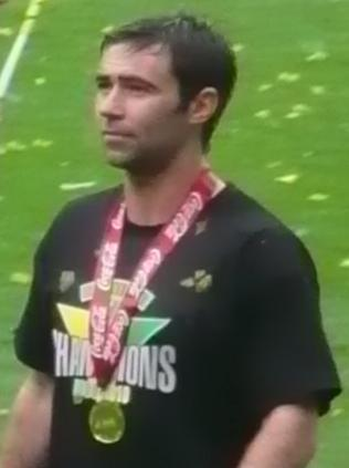 Simon Lappin with 2009–10 Football League One winner's medal, taken at Norwich City's home match against Carlisle United on 8 May 2010.